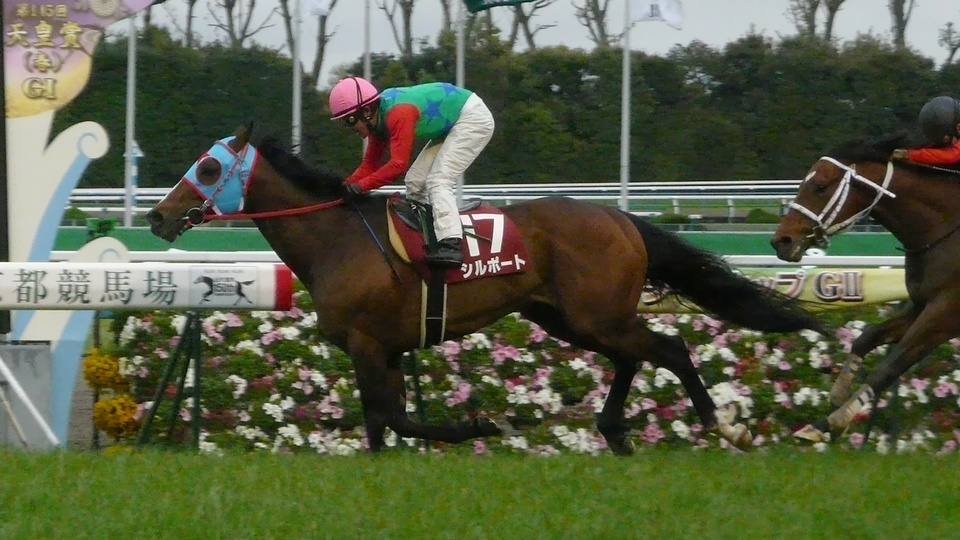 Silport20120422(1)